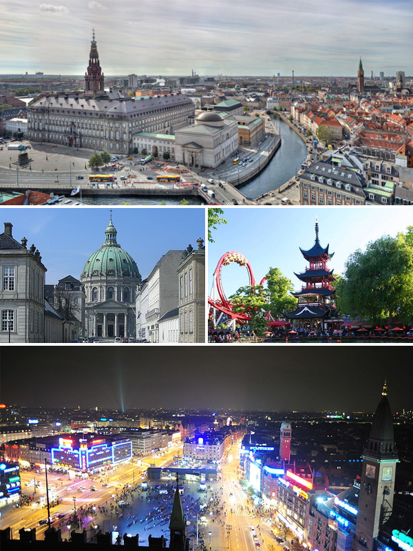 Collage of Copenhagen, Denmark: Clockwise: Slotsholmen - Christiansborg Palace and Chapel on Slotsholmen in Copenhagen, Denmark, seen from the top of St. Nicolas' Church Tivoli Gardens City Hall Square seen from the City Hall clocktower at night The Marble Church viewed from Amalienborg Palace